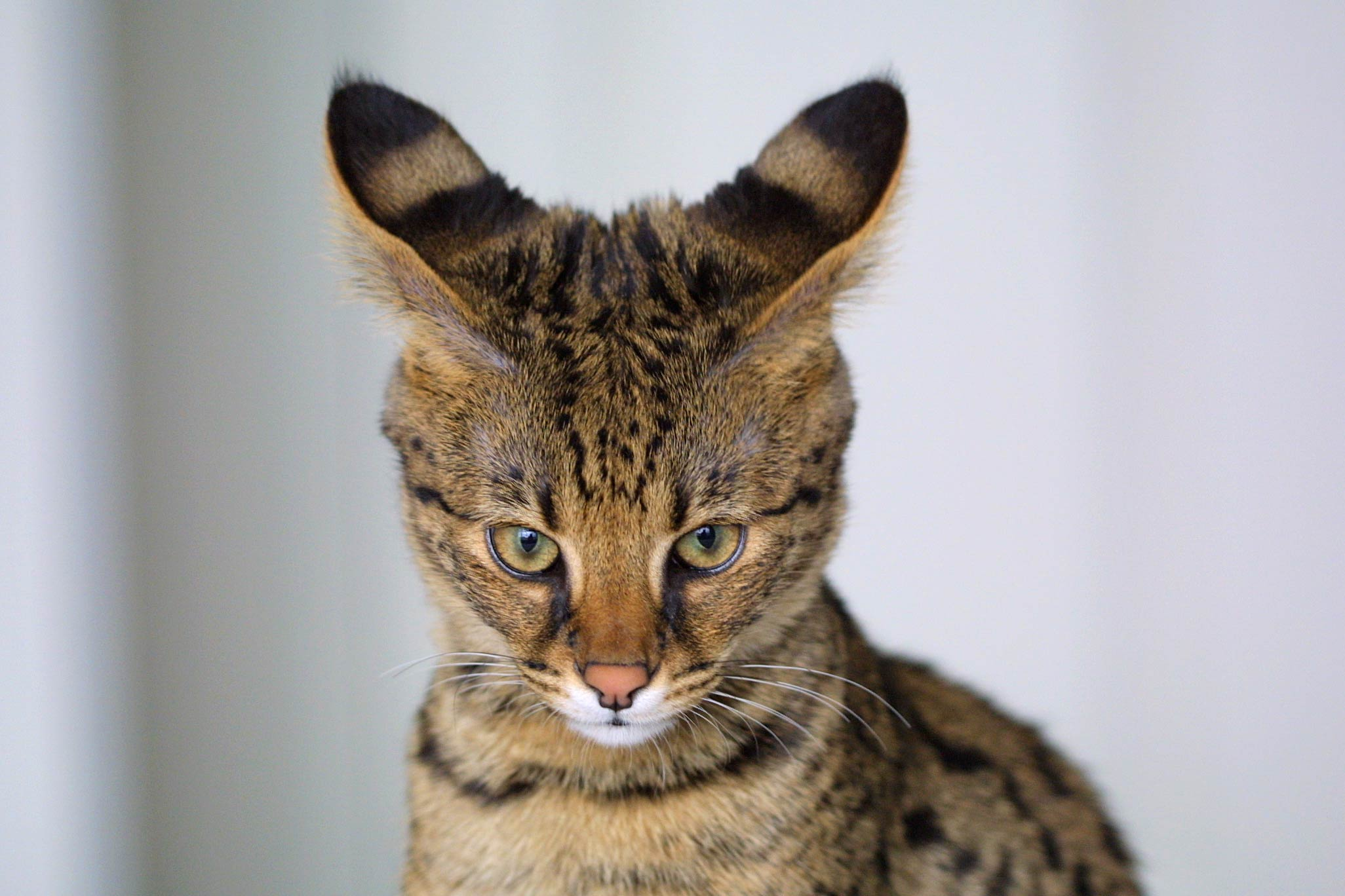 Close-up of a 4-month old F1 Savannah cat. Notice the occelli on the back of the relaxed ears, and the tear-stain markings which run down the side of the nose.